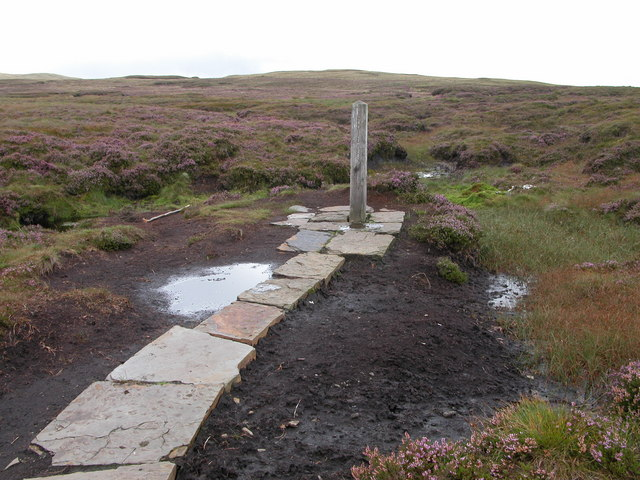 Source of the river Severn/Tarddiad Afon Hafren. A post in the middle of a peat bog high on Pumlumon indicates the source of the river Severn, at 220 miles Britain's longest river.